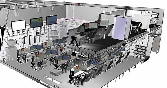 The ship's mission center and common display system workstations aboard USS Zumwalt (DDG 1000).